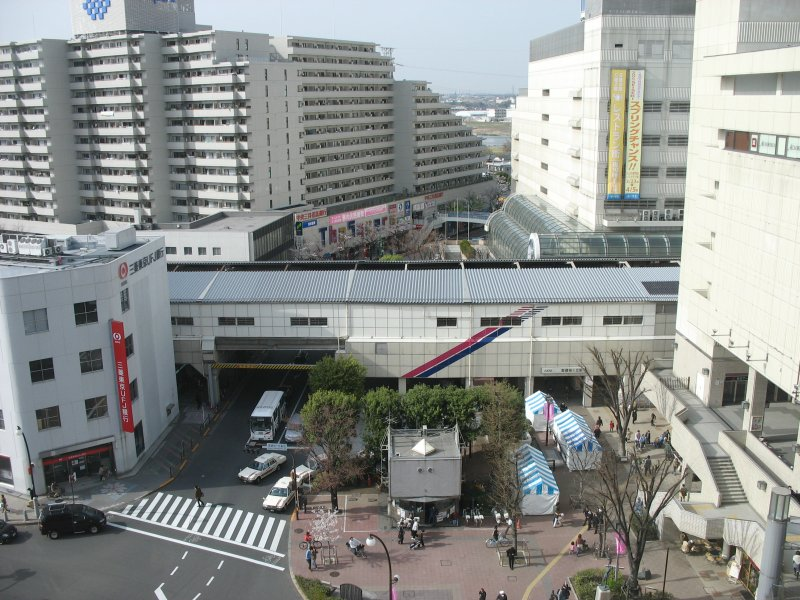 Photograph of Seiseki sakuragaoka station, Tama city, Tokyo, Japan.